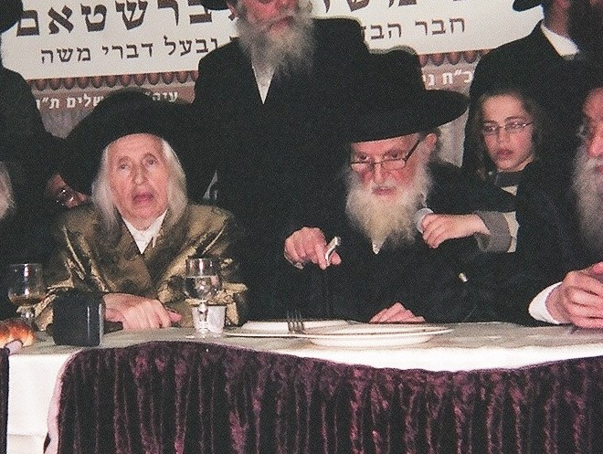 Seated are Rabbi Moishe Sternbuch (right) and the Kaliver Rebbe (left)